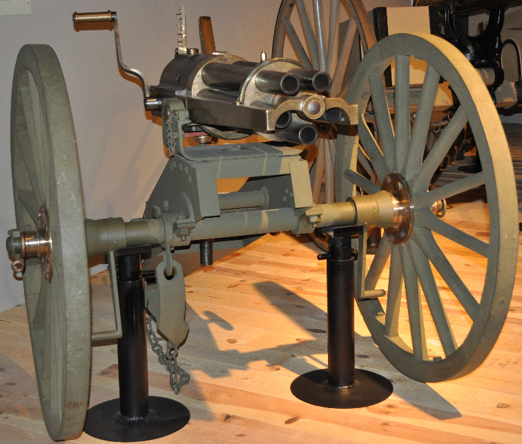 A 37 mm Hotchkiss Revolving Cannon at the US Army Field Artillery Museum, Fort Sill, OK